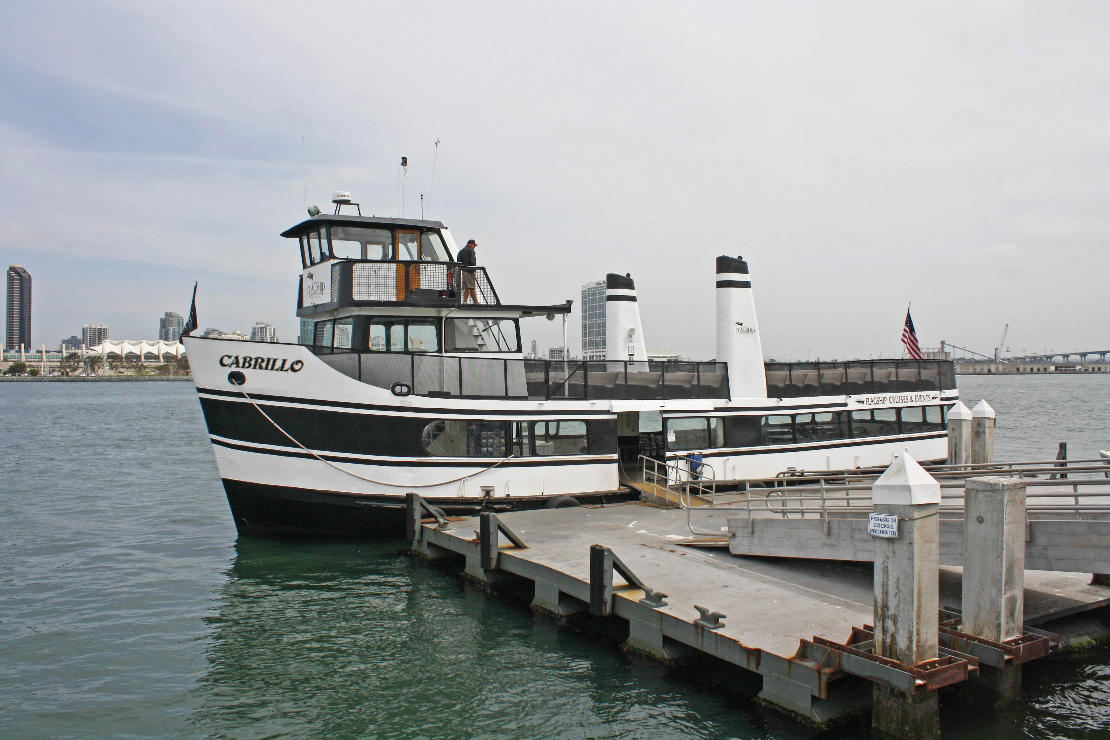 The Cabrillo Ferry from the San Diego Harbor Excursion company at the Coronado Ferry Landing, Coronado Island, California